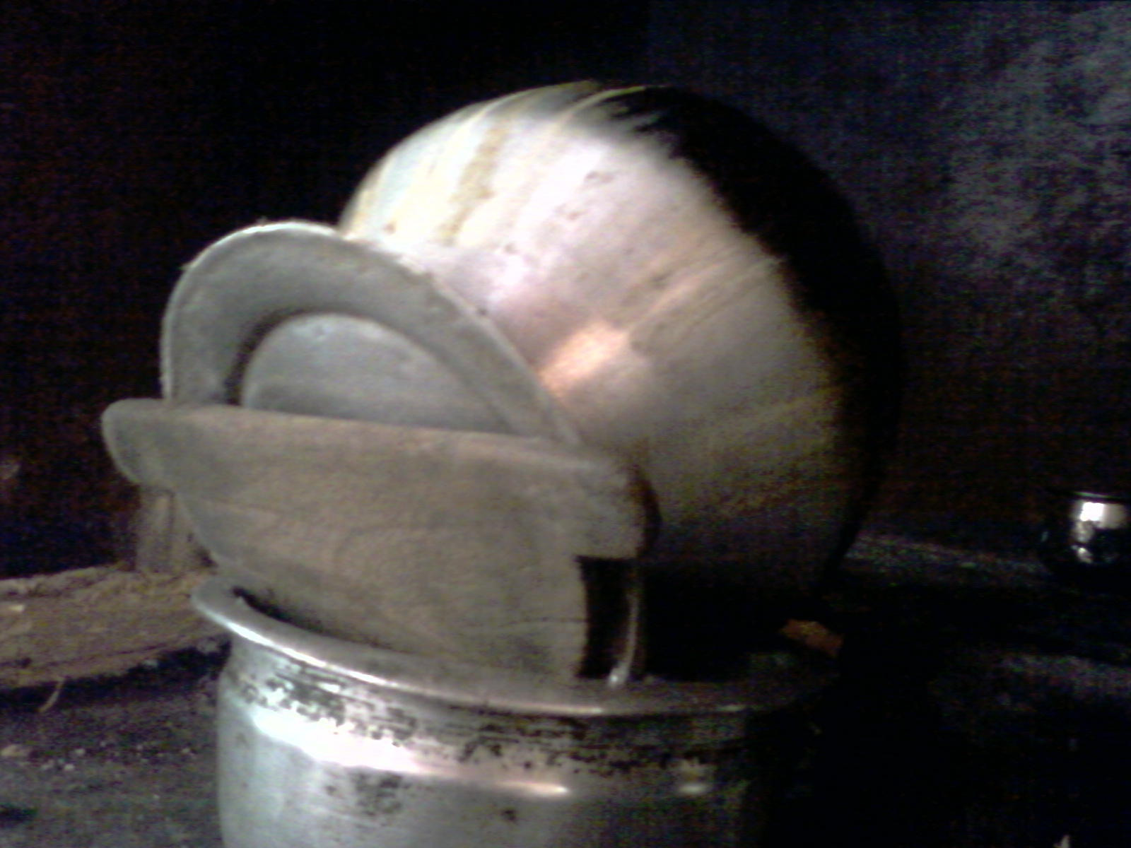 Adapalaka is piece of wood help remove water from boiled rice.